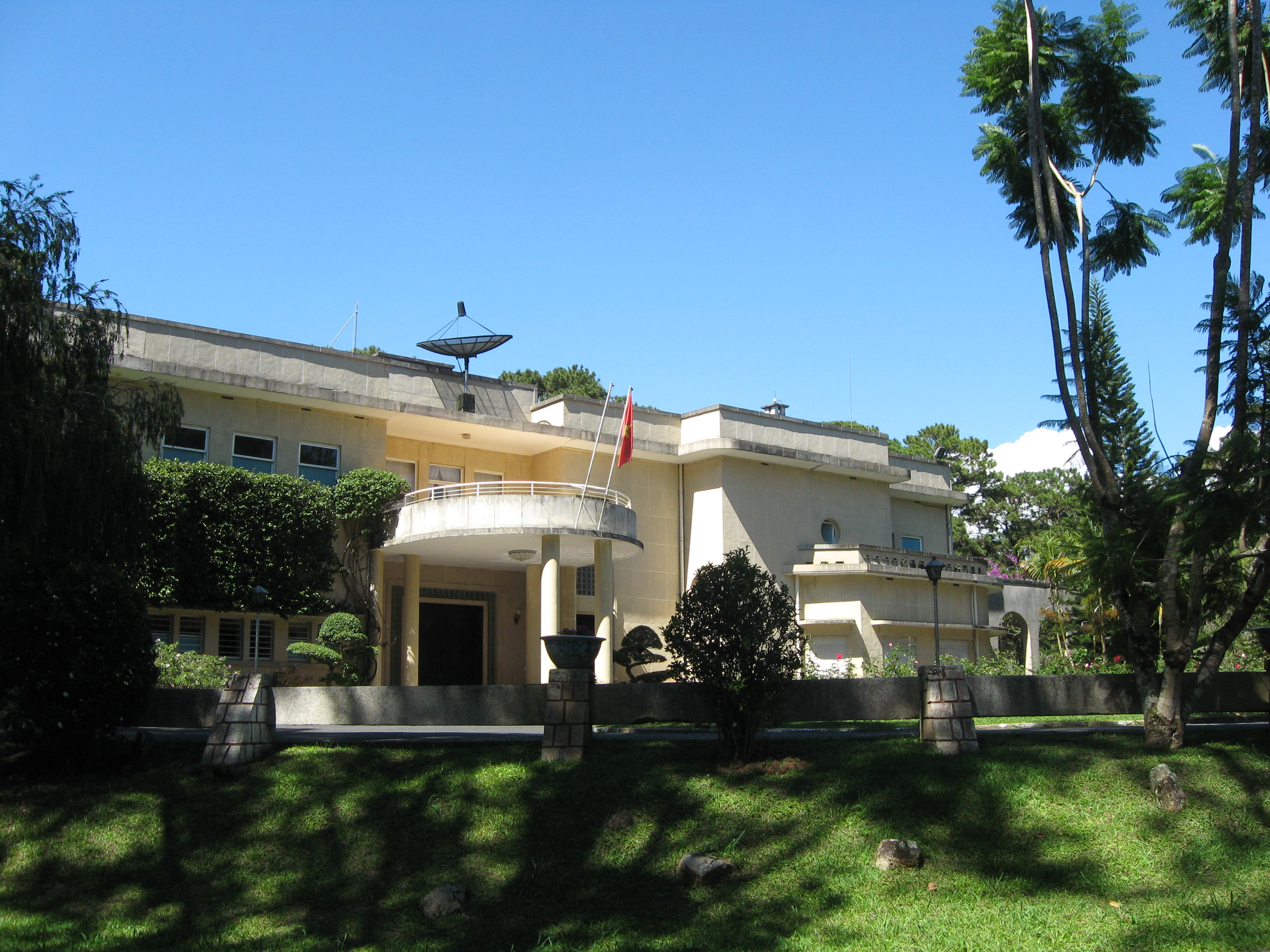 Palace II, Da Lat